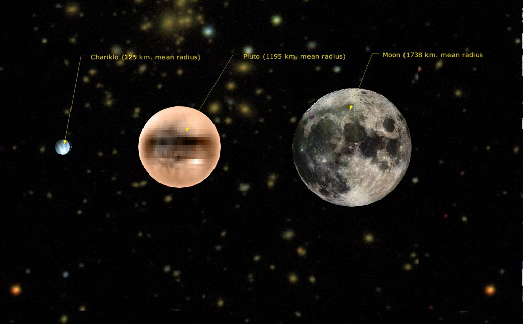 This is an updated size comparison of, left to right, 10199 Chariklo, Pluto, and the Moon, based on the mean radius